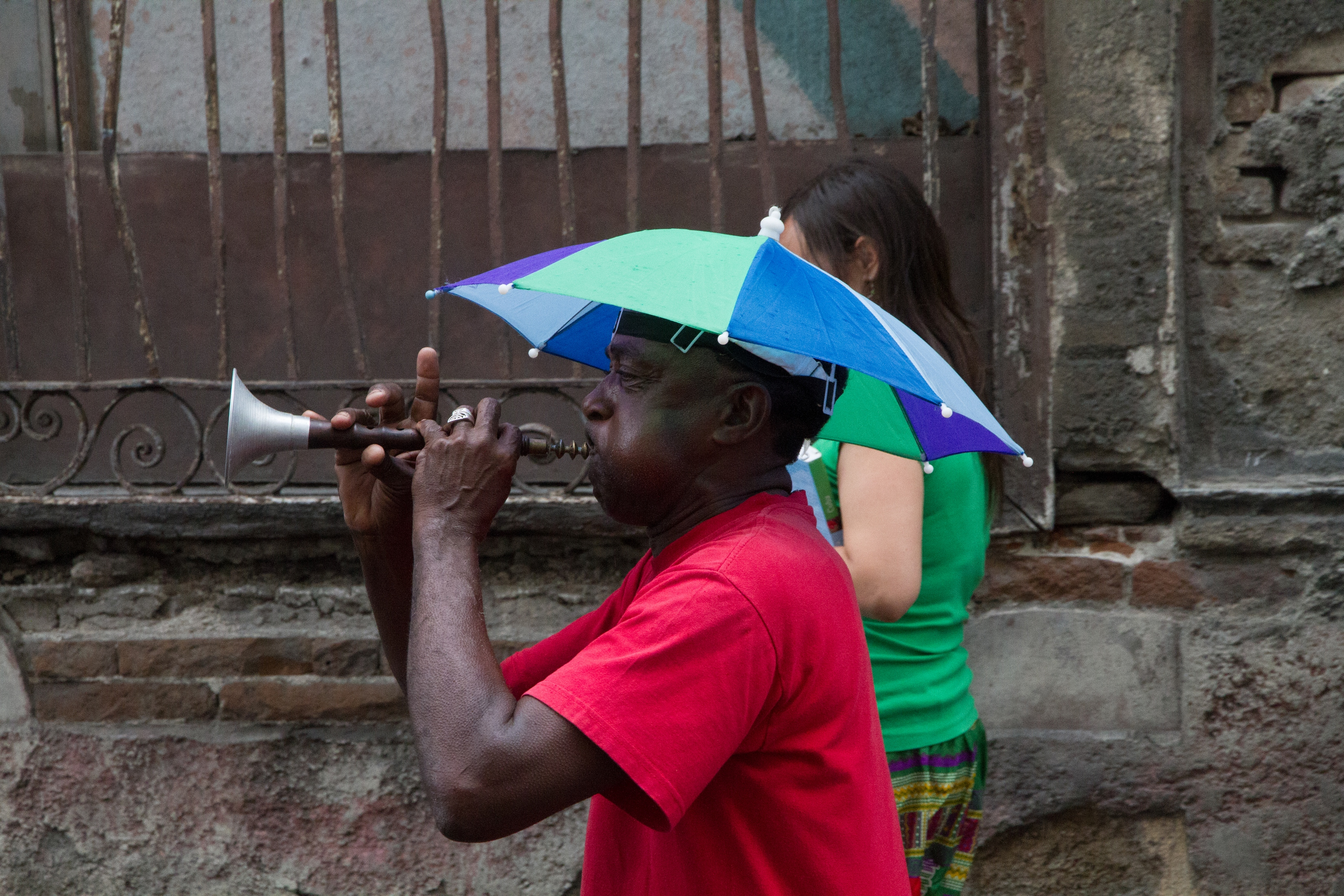 "Chinese trumpet", Conga of Tivoli, Santiago de Cuba 2011